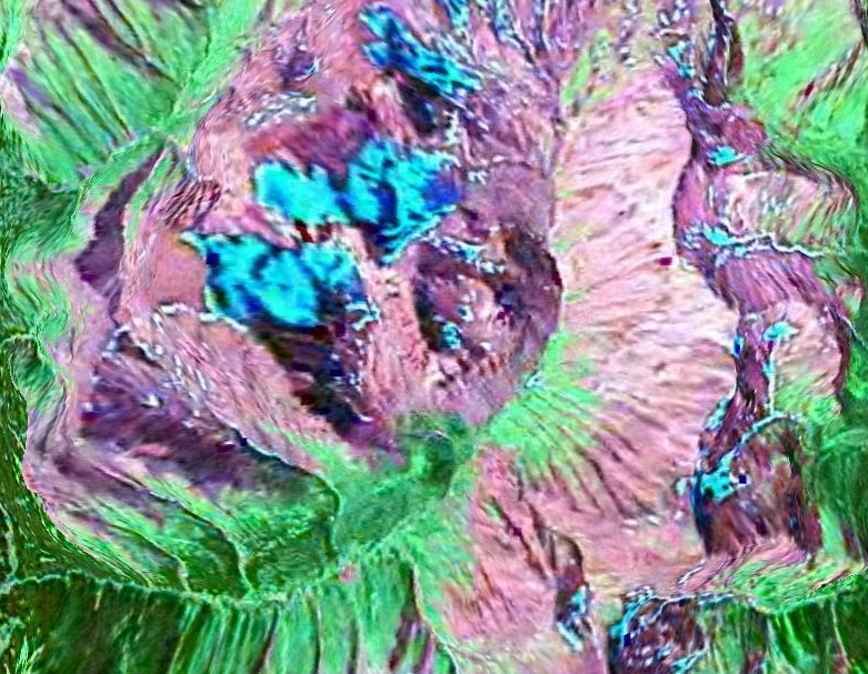 Image of the Armadillo Peak caldera in northern British Columbia, Canada.